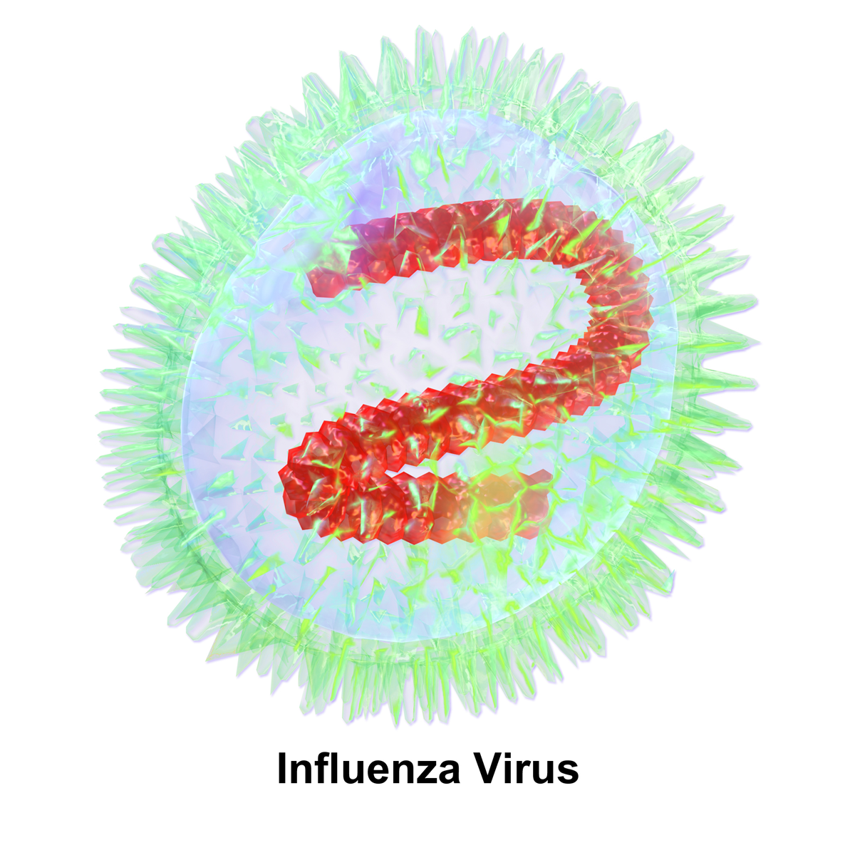 Influenza Virus. See a full animation of this medical topic.